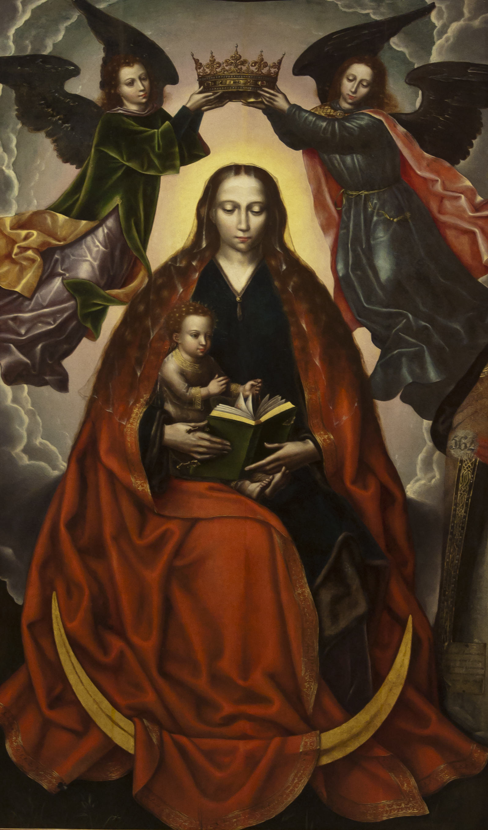 Virgin and Child